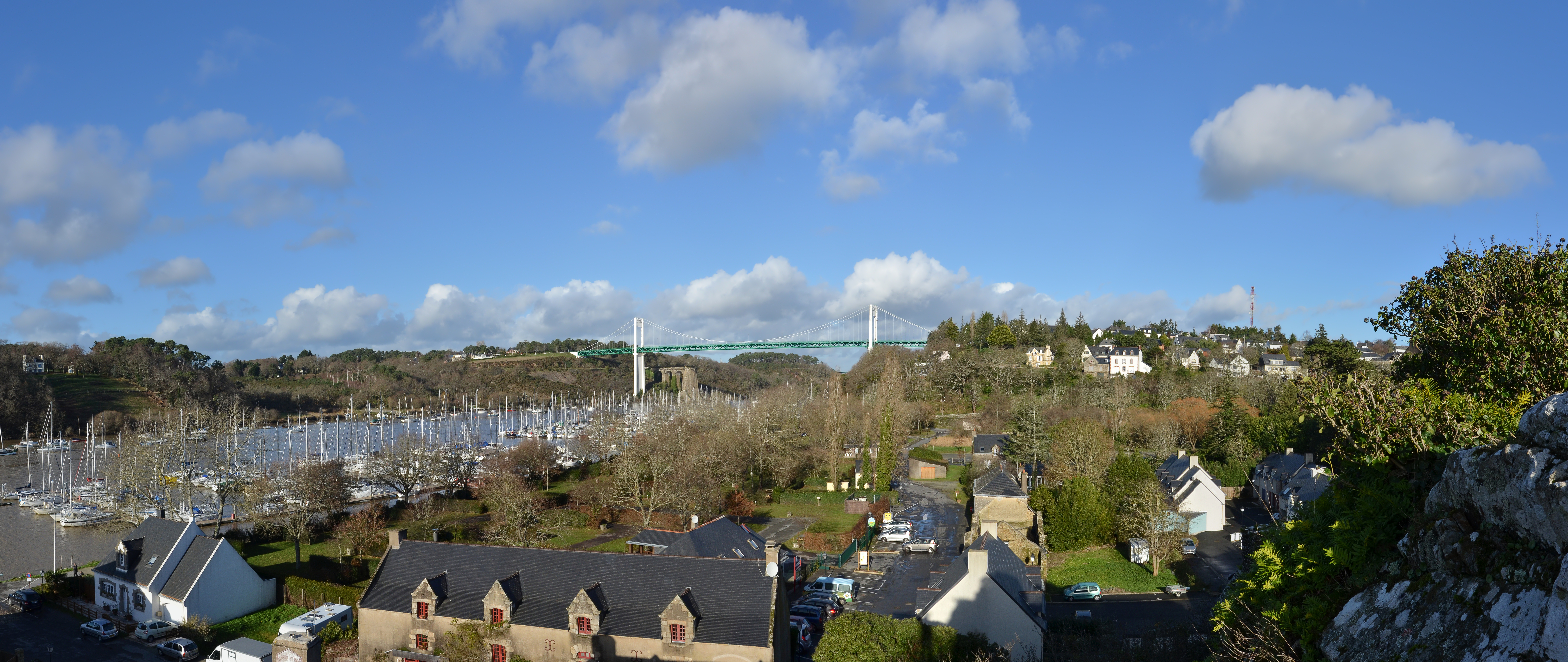 The marina and the bridge as seen from the Rocher, La Roche-Bernard, Morbihan, France.